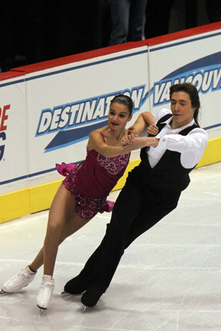 Valeria ZENKOVA and Valerie SINITSIN (RUS) at the 2009-2010 Junior Grand Prix Lake Placid.